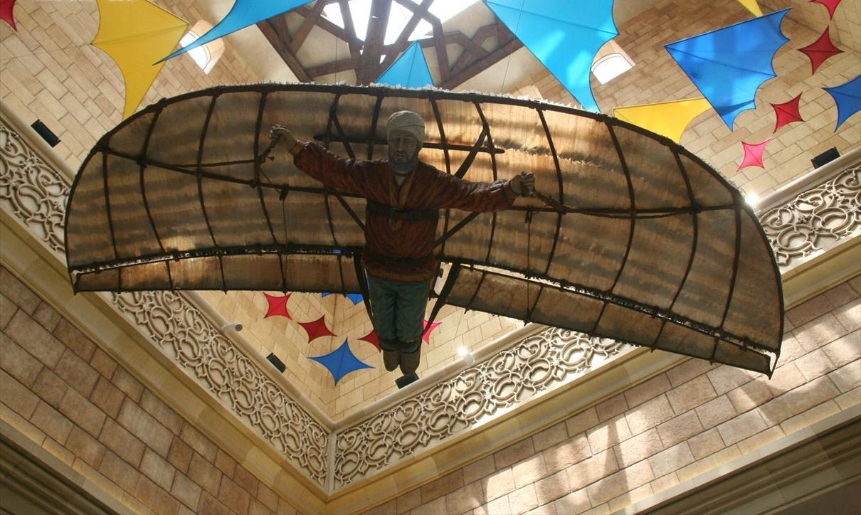 This is a photo showing a memorial to Arab inventors in Ibn Battuta Mall in Dubai, United Arab Emirates on 2 June 2007.